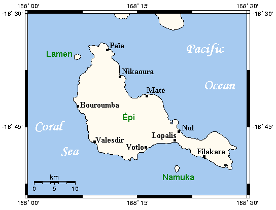 Map of Épi in Vanuatu. This map's source is here, with the uploader's modifications, and the GMT homepage says that the tools are released under the GNU General Public License.